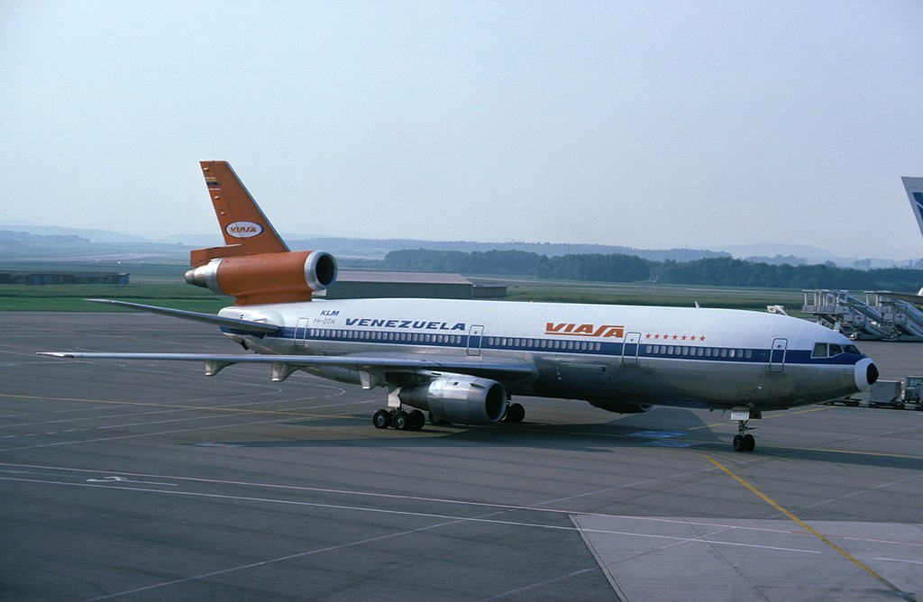 A McDonnell Douglas DC-10-30 in Viasa colours with KLM additional titles at Zürich Airport (ZRH / LSZH). Leased from KLM.